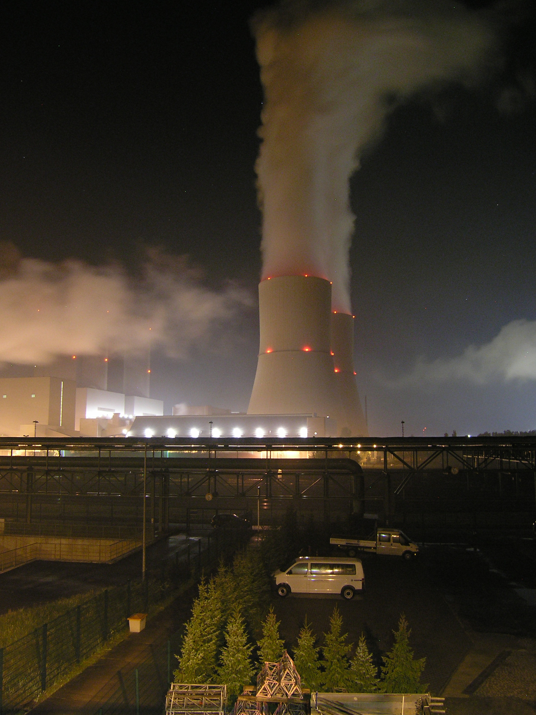 Cooling towers of Lippendorf power plant by night